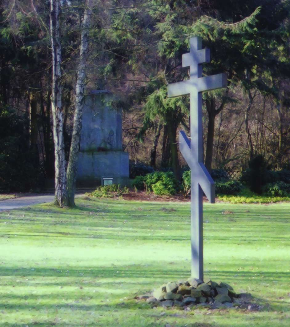 POW memorial and graveyard in Hemer, Germany. During WWII about 24,000 POW, most of them from the Soviet Union, died in the Stalag IVa. Photo taken by User:Ahoerstemeier on February 7 2005.